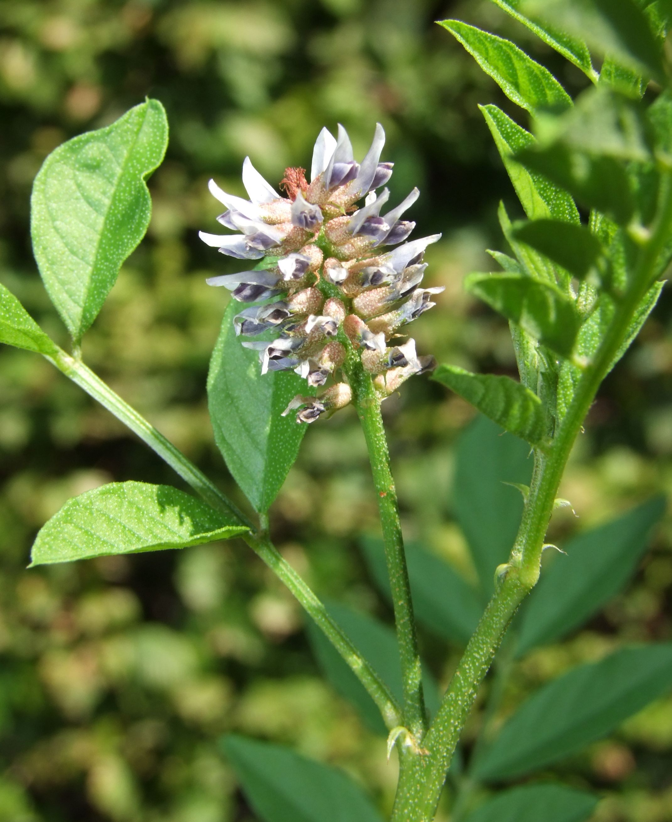 Inflorescence of Glycyrrhiza glabra